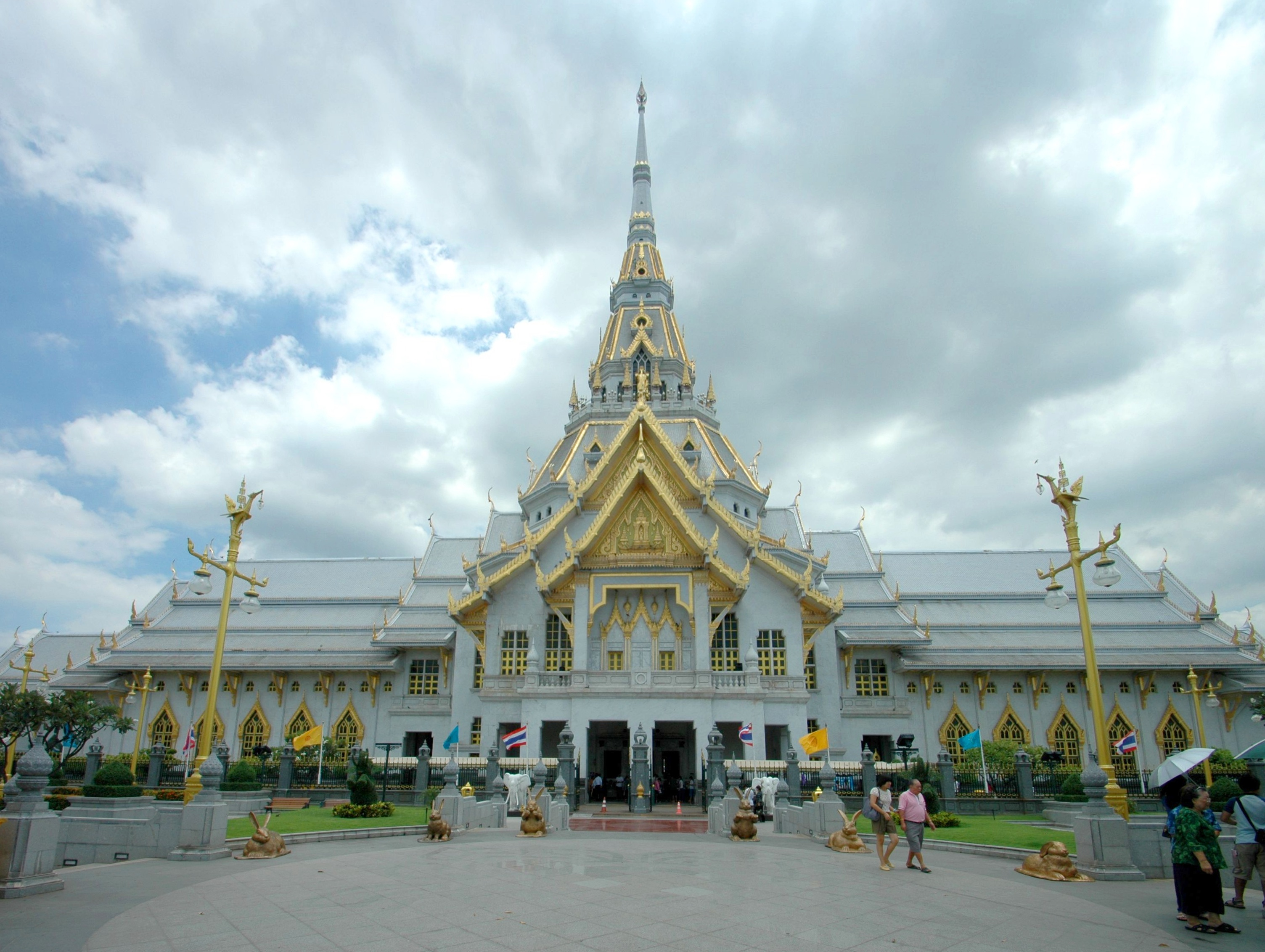 Luang Po Sothon Chapel in Chachoengsao/Thailand